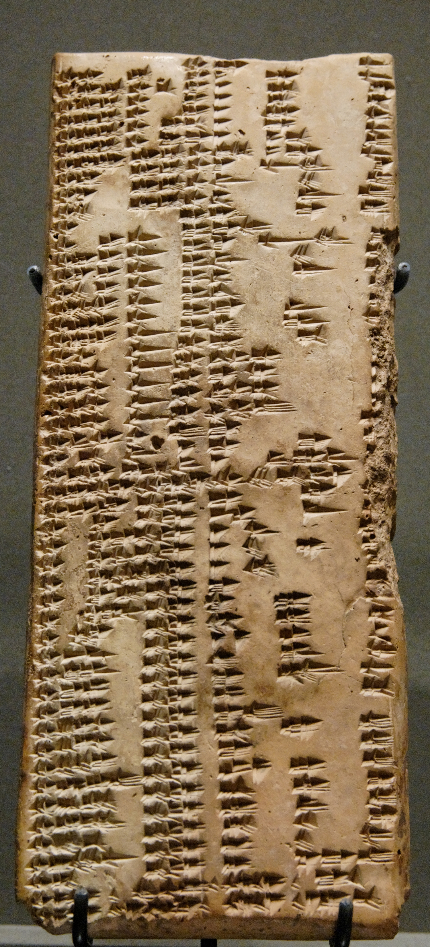 Sumerian-Akkadian lexicon, 16th volume of the 24-volume Urra=hubullu encyclopedia concerning stones and objects made in stone. Clay, middle 1st century BC (copy of a more ancient original). From Warka, ancient Uruk.